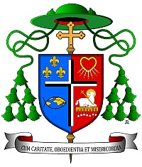 Coat of arms of Bernard Bober